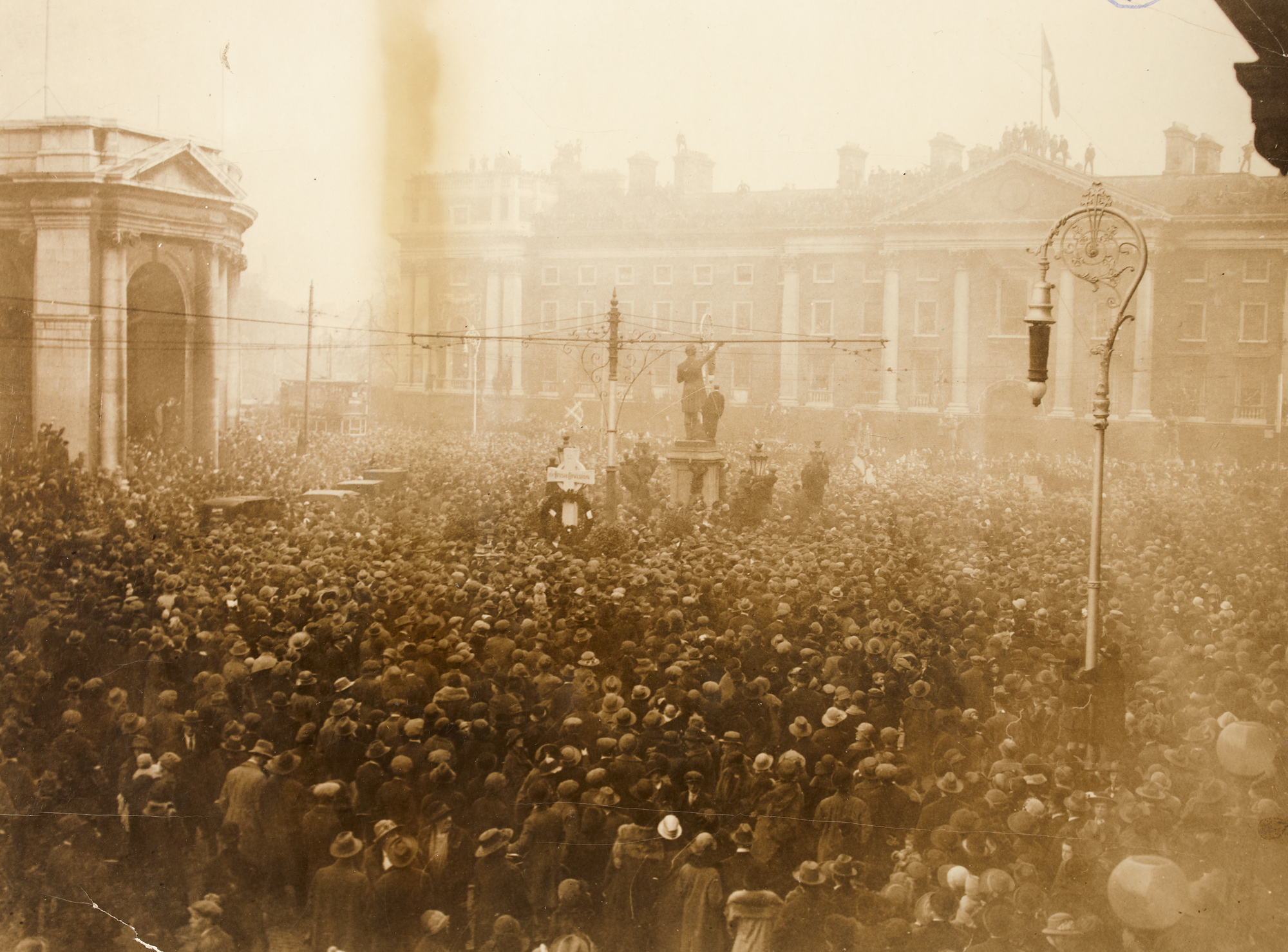 Photo taken in Dublin on Armistice Day, 89 years ago today. This huge crowd was gathered in College Green for the unveiling of a Celtic Cross in memory of the 16th Irish Division. The Irish Times estimated that 50,000 people were present at this ceremony. The Celtic Cross was temporarily erected in College Green for later transport to Guillemont, France, to stand as a permanent memorial to the dead of the 16th Irish Division. On Wednesday, 12 November 1924, the Irish Times reported: "There were hundreds of ex-service men, wearing their ribbons and medals, round the Celtic cross, in addition to those who took part in the official parades, and the display of Flanders poppies was not equalled by any city in the British Isles. It was a wonderful and heartening sight. After the Réveille had been sounded the National Anthem was sung publicly and lustily in the streets of Dublin for the first time for many years. ... It was stated last night that nearly 500,000 poppies had been sold in Dublin and district." Date: Tuesday, 11 November 1924 NLI Ref.: HOG131